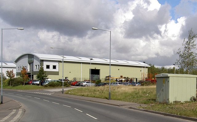 Industrial units